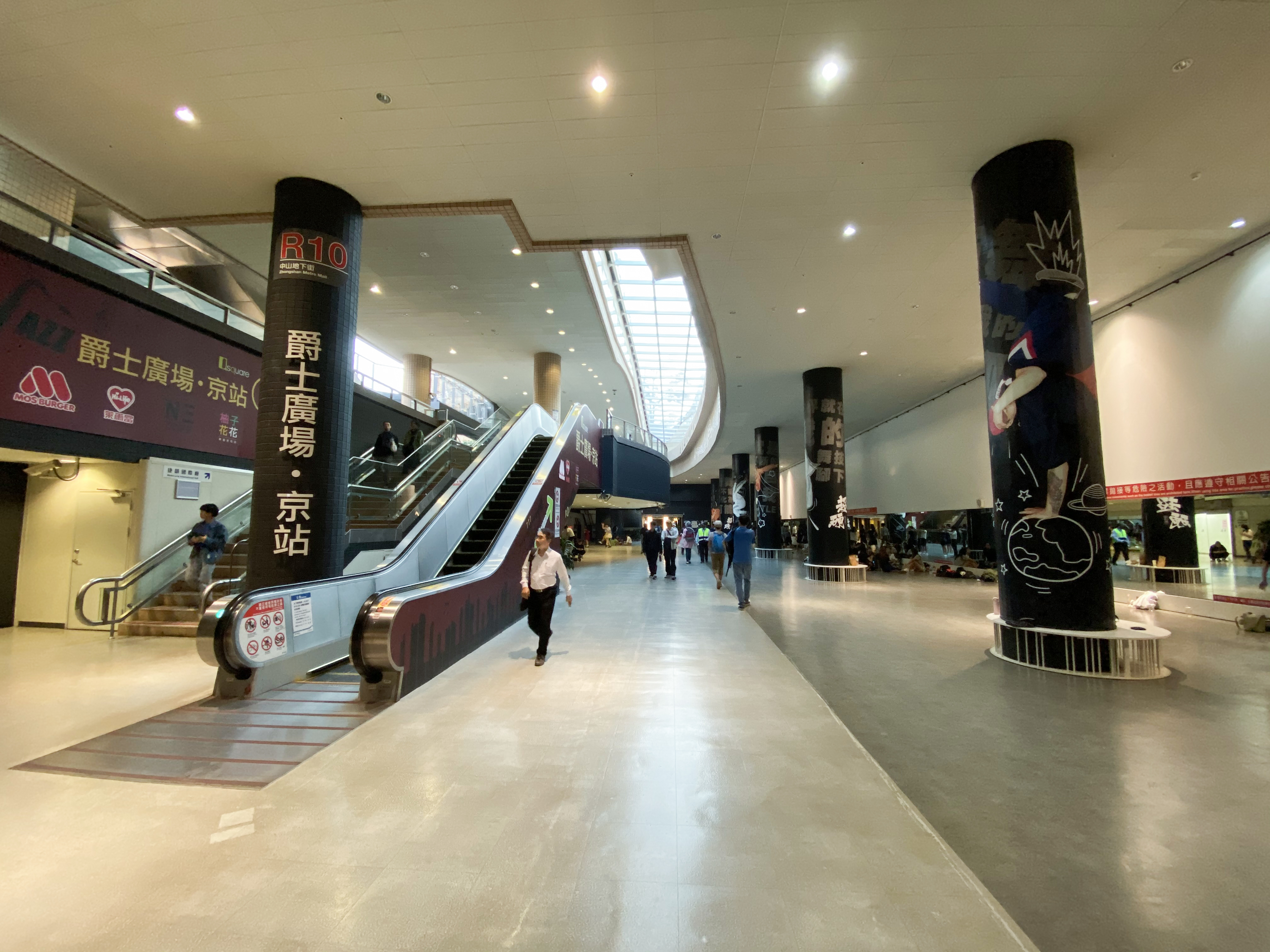 Jazz Square, Zhongshan Metro Mall, Taipei City.